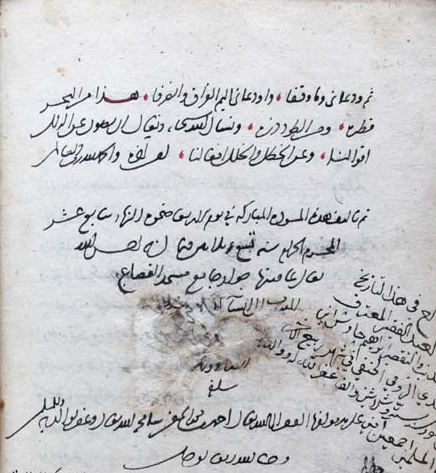 Autograph of Ahmad ibn Arabshah, Aja'ib al-Maqdur fi Akhbar Taymur, dated 839 H.E. Adilnor Collection.